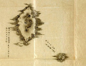 Japan's old map